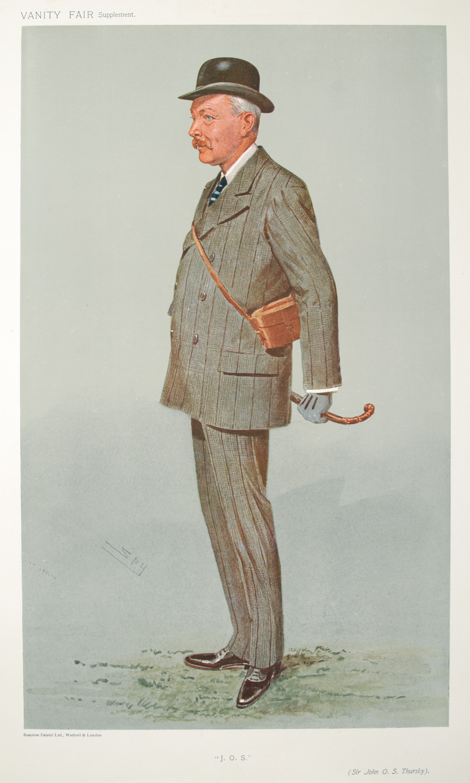 Caricature of Sir John Ormerod Scarlett Thursby (1861-1920). Caption read "JOS". Biography